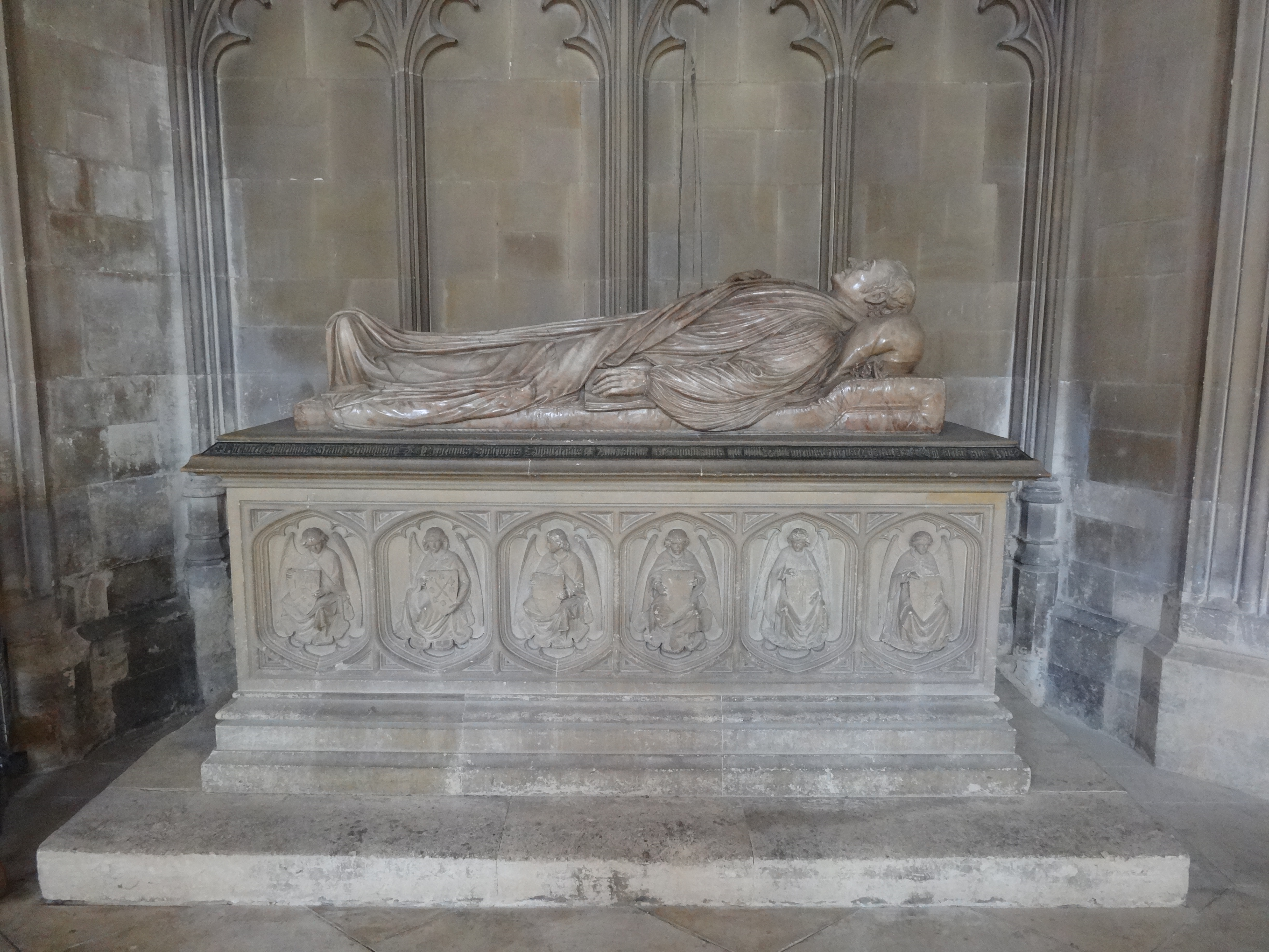 William Grant Broughton's tomb